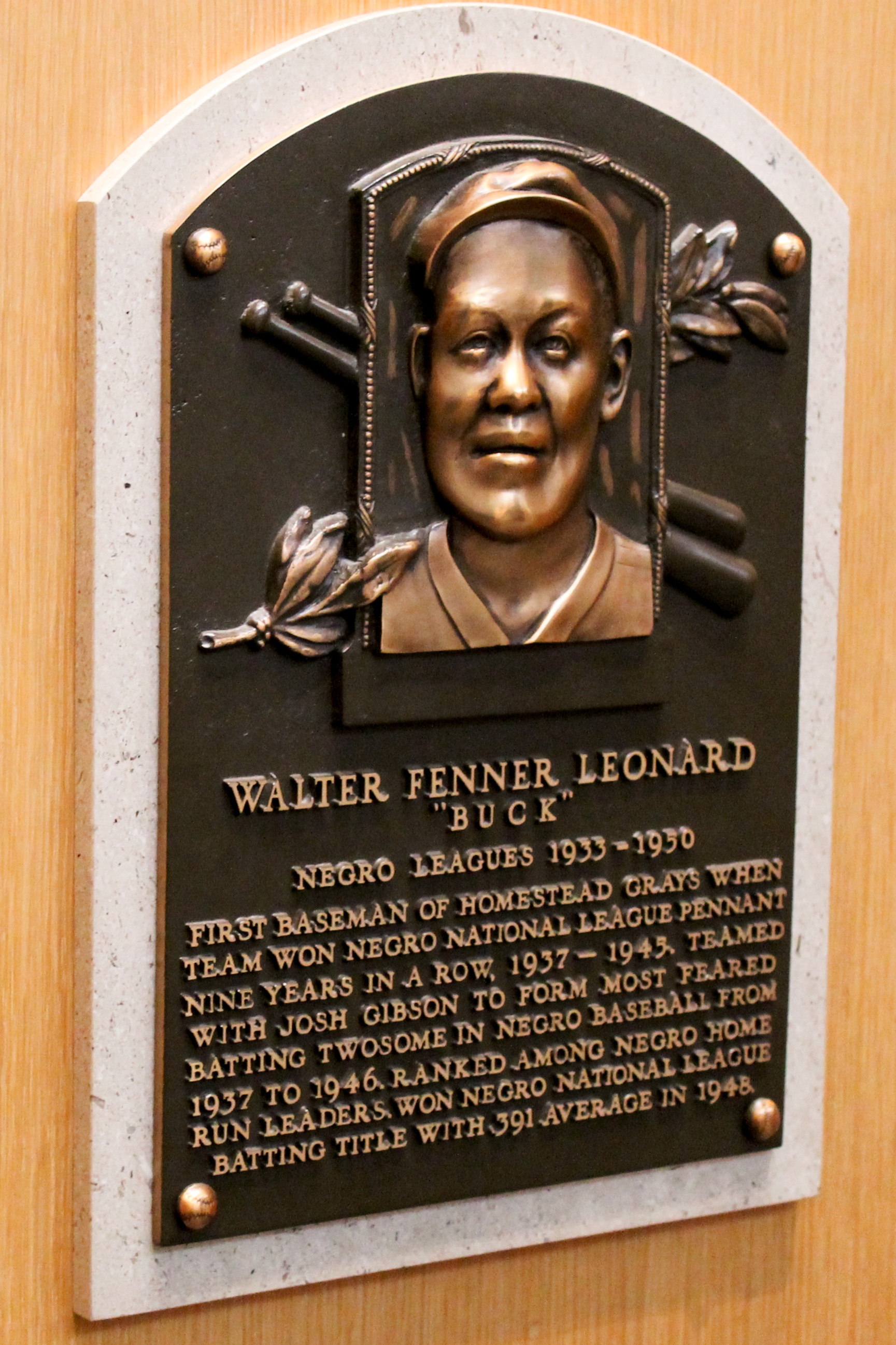 Baseball Hall of Fame plaque honoring the induction of Negro league baseball player Buck Leonard.